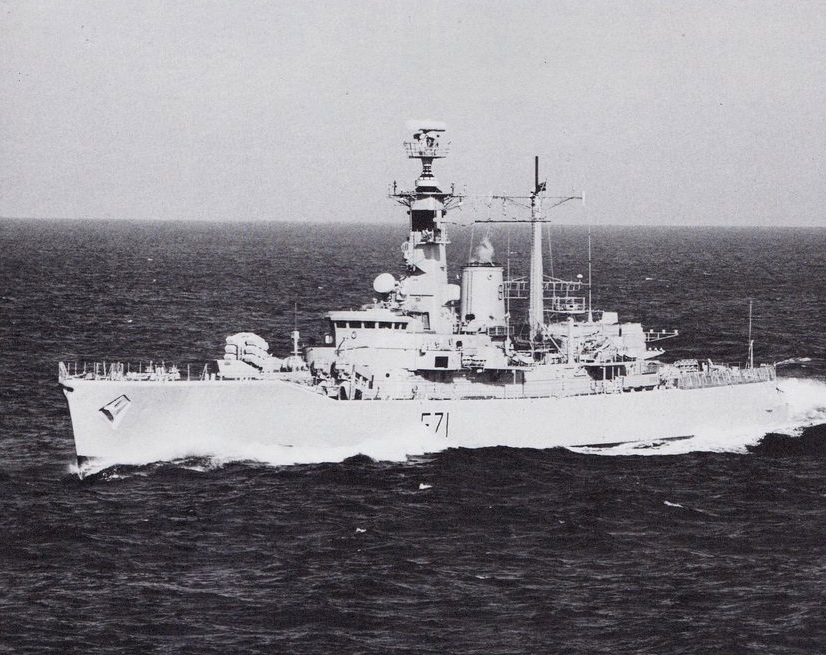 The Royal Navy frigate HMS Scylla (F71) underway in the Persian Gulf area, in 1987 or 1988. Scylla was assigned to the "Armilla patrol", the Royal Navy's permanent presence in the Persian Gulf during the 1980s and 1990s.